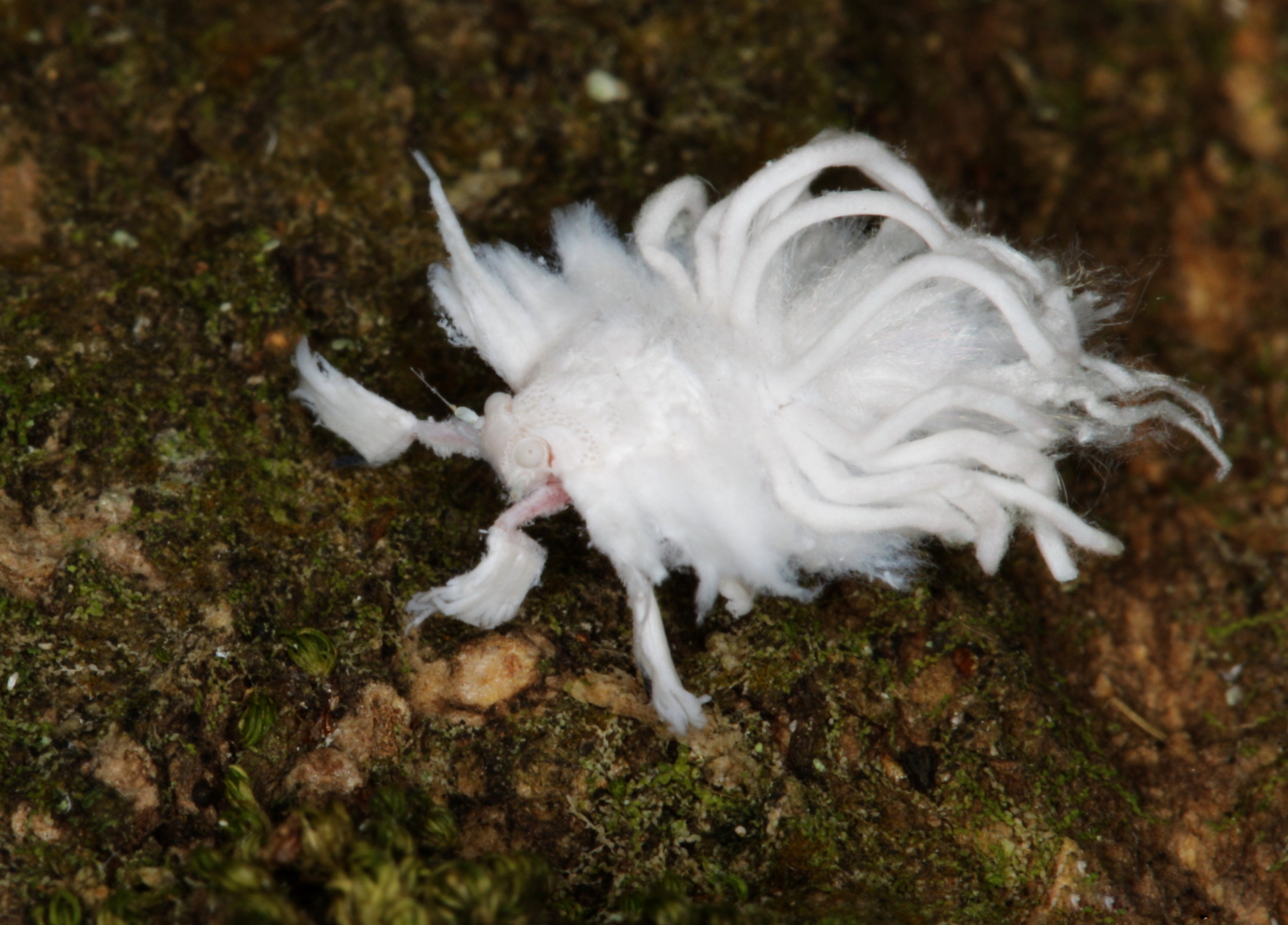 Nymph of a Fulgoroid (Spitzkopfzikade), covered with wax; L: 1.2 cm (+/- 0.2cm) Family: Fulgoridae? OR Family: Eurybrachidae (Genus: Thessitus) ? [det. J. Constant 2009, based on photos] Infraorder: Fulgoromorpha (planthopper, Spitzkopfzikaden) Suborder: Auchenorrhyncha Order: Hemiptera (true bugs, Schnabelkerfe ) Class: Insecta (insects, Insekten) Indonesia, W-Java, ca. 20km W of Pelabahun Ratu, vic. Cisolok: Cipanas, 200m asl., 12.11.2009 ________________________________________________________________________________ (IMG_6721)